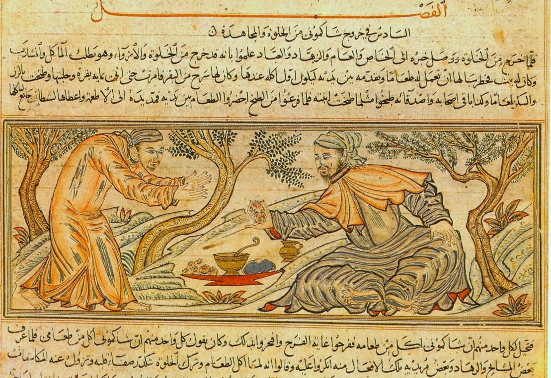 Buddha offers fruit to the devil. Khalili Collection (probably from same original manuscript as the Edinburgh portion)